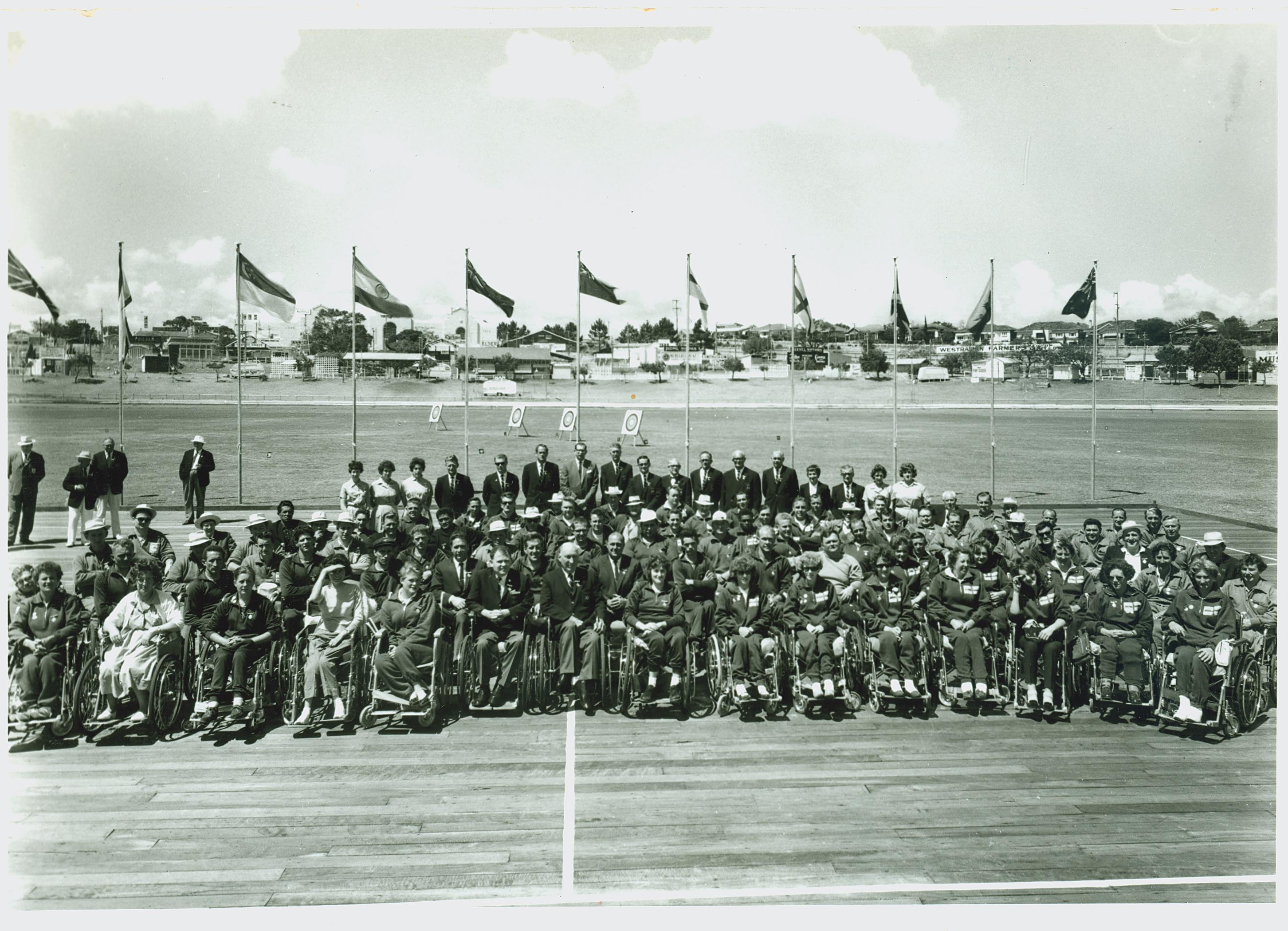 1962 Commonwealth Paraplegic Games Competitors Team Photograph, supplied by Daphne Ceeney, member of the Australian Team, to the Australian Paralympic Committee. Organising Committee dissolved in 1962.